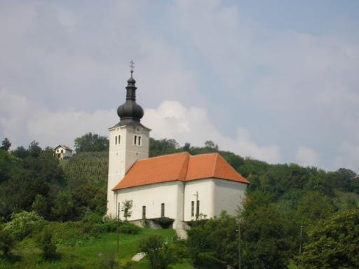 Church in Croatia